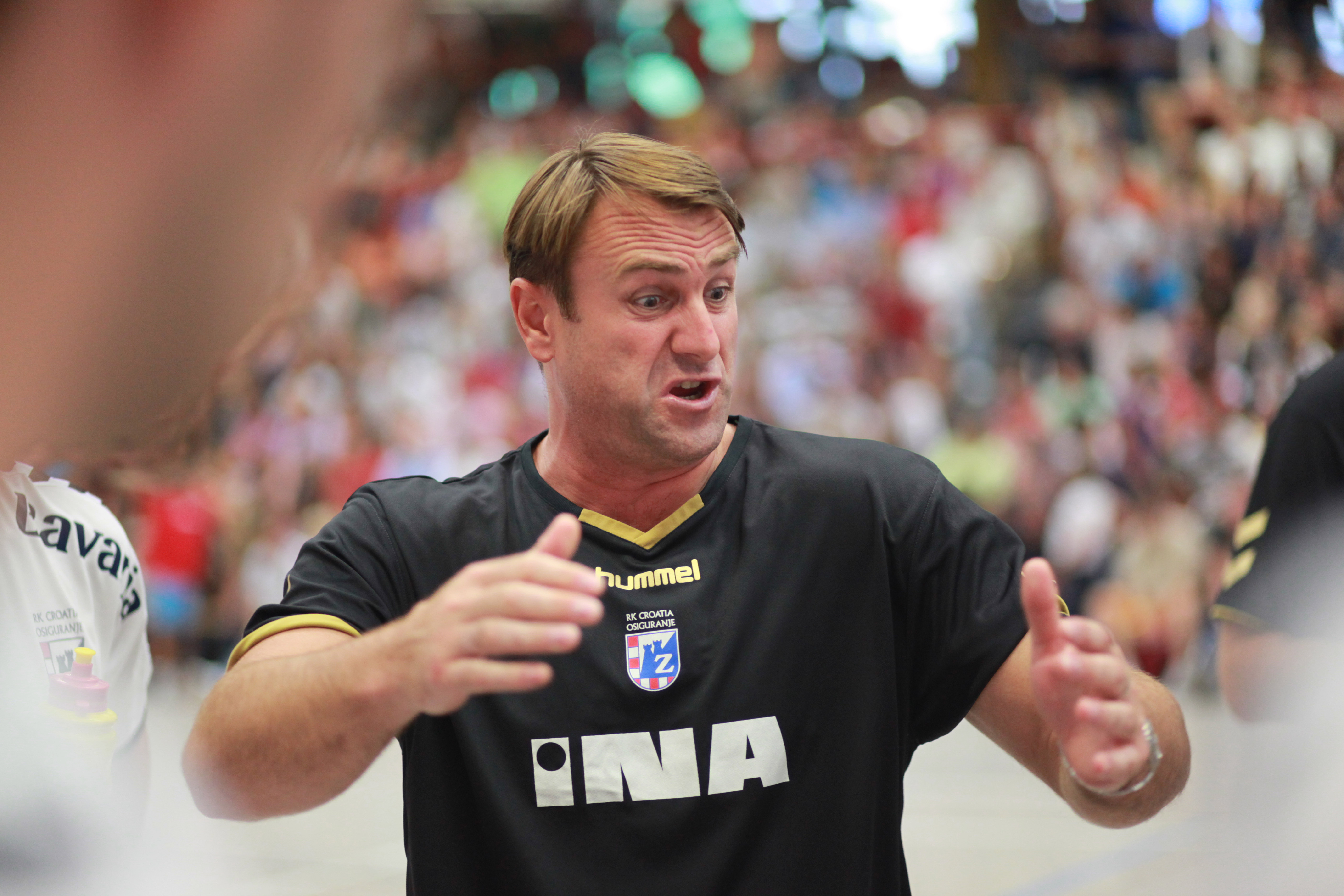 Senjanin Maglajlija, handball coach from Bosnia & Herzegovina, on August 22nd, 2009, in Ehingen (Germany) during the Schlecker Cup 2009.